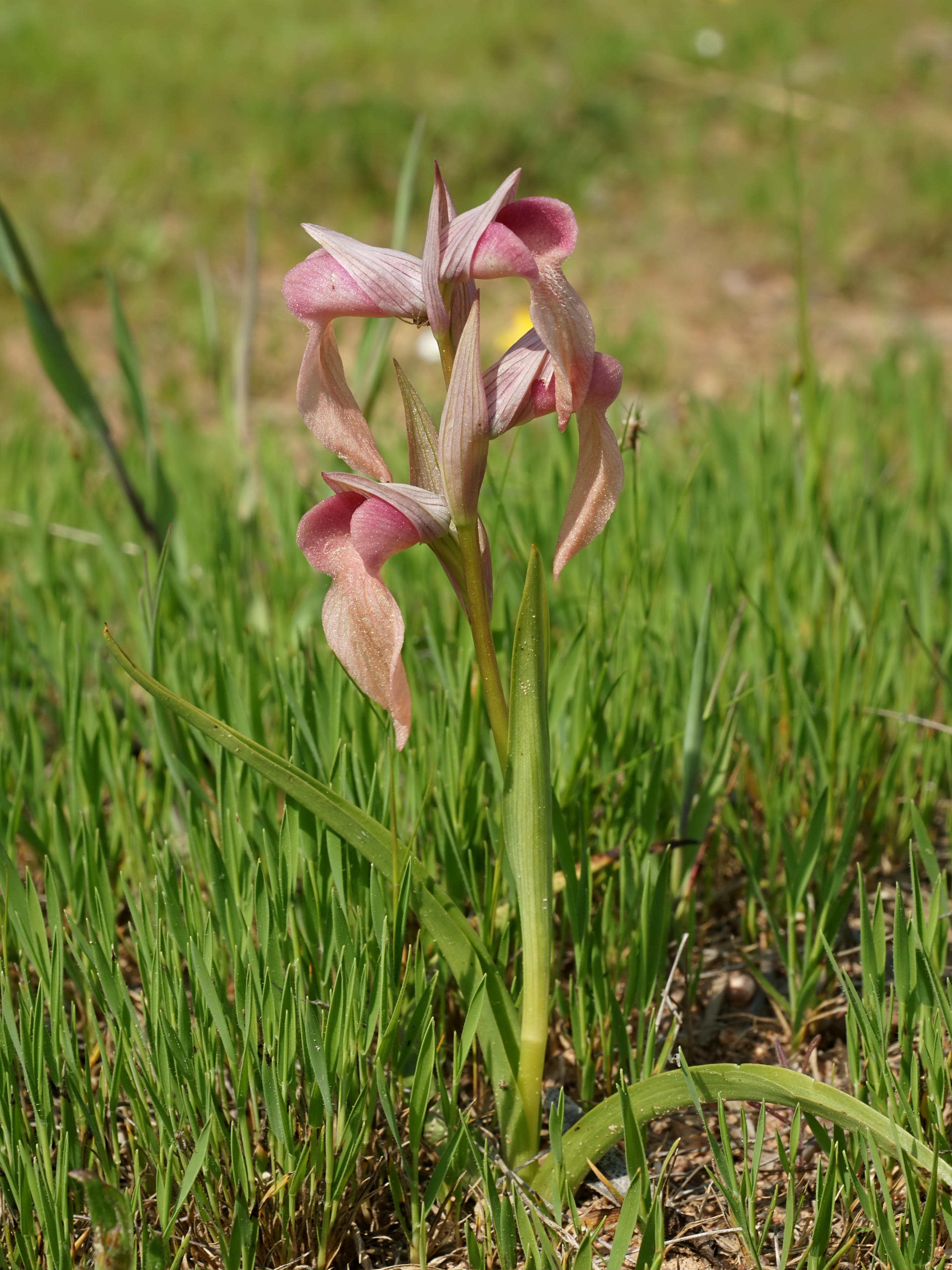 Neglected Serapias at Bois du Rouquan, Var, France